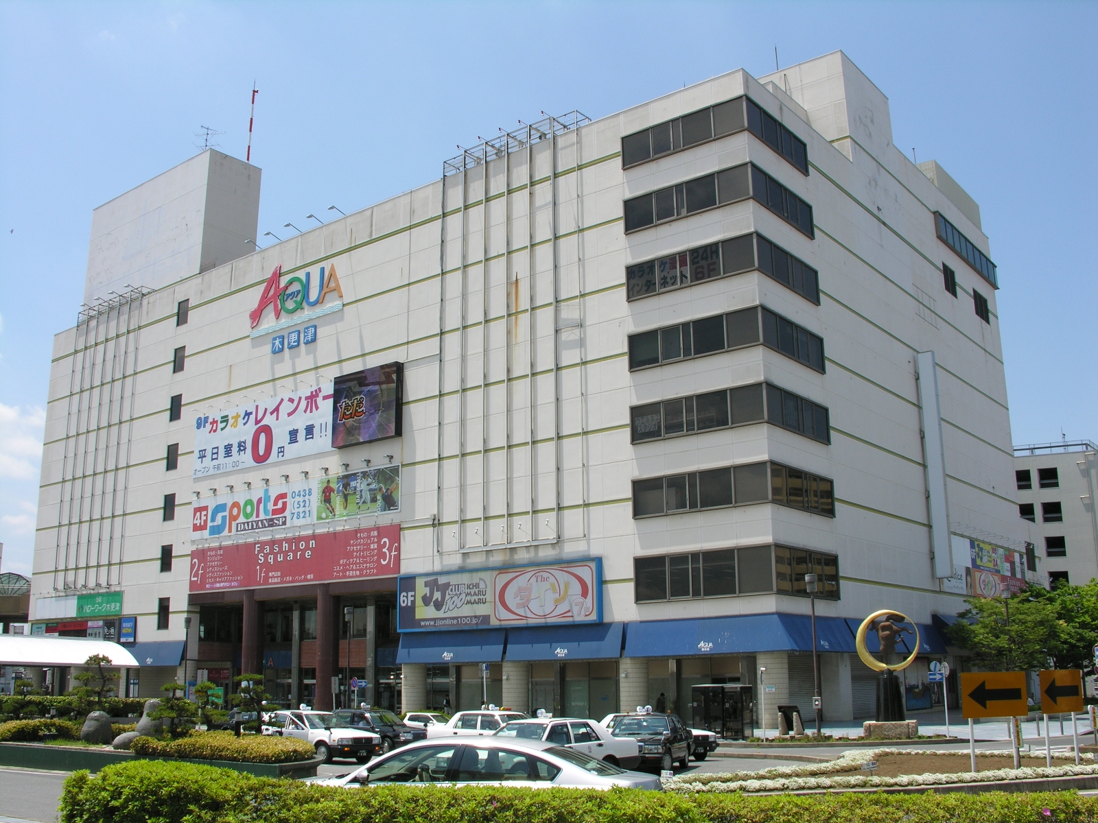 Aqua Kisarazu in front of the Kisarazu Station west side